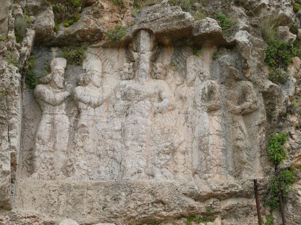 Sassanide relief from Sarab Bahram, region of Noorabad, Province of Fars, Iran. Audience scene of Sasanian king .